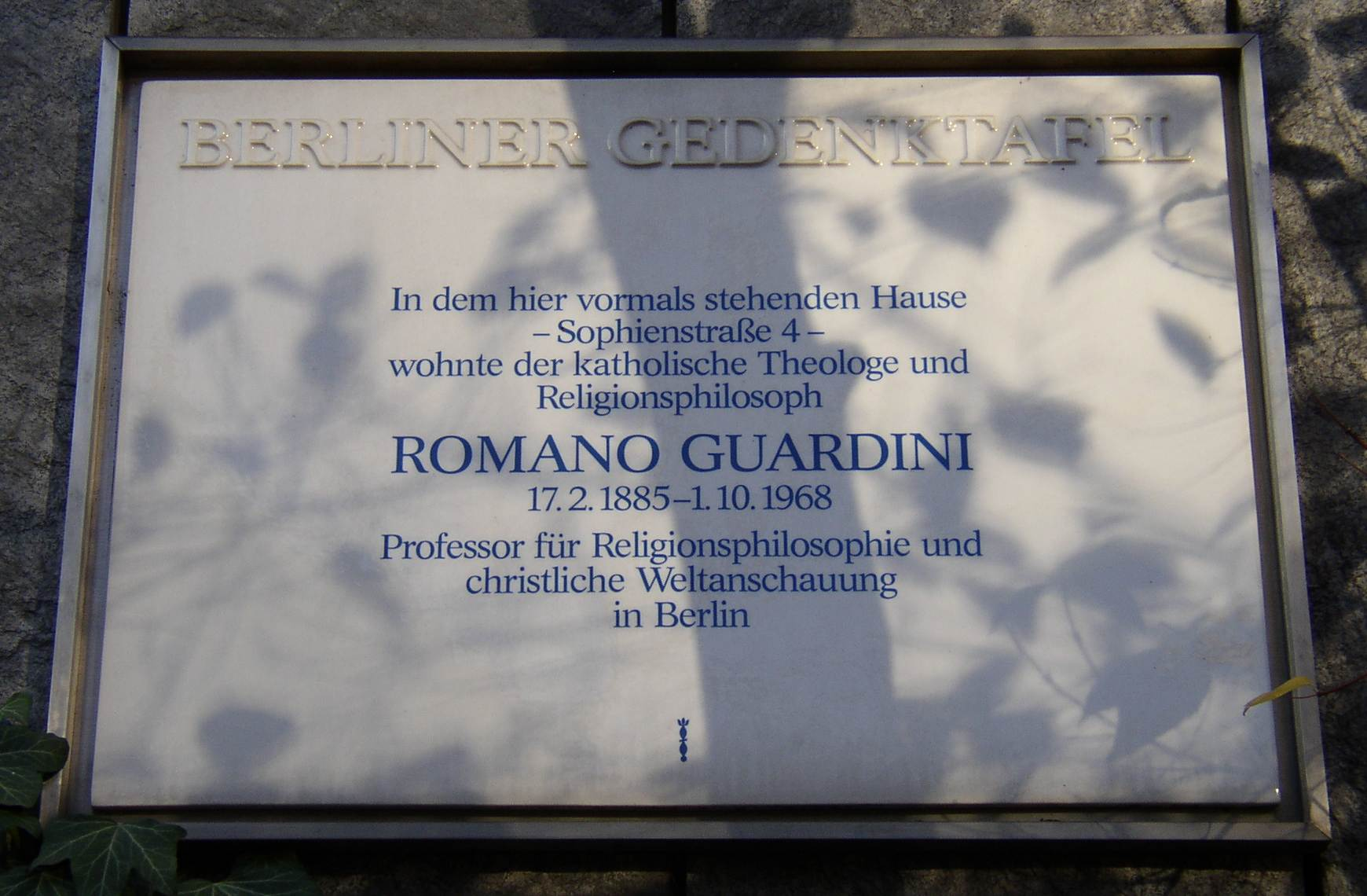 Berlin memorial plaque for Romano Guardini in Berlin-Charlottenburg, Germany